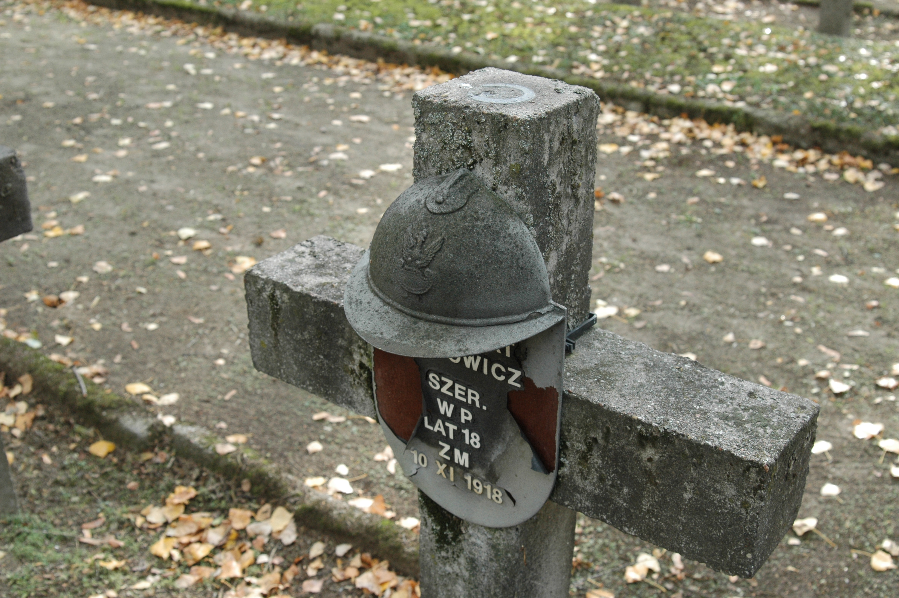 A WWI French Adrian helmet (Hełm wz.15 in Polish nomenclature) incorporated as part of grave of a Polish soldier of Haller's Blue Army. Powązki Military Cemetery, Warsaw.